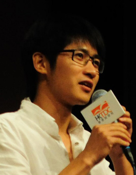 Han Han at Hong Kong Book Fair 2010